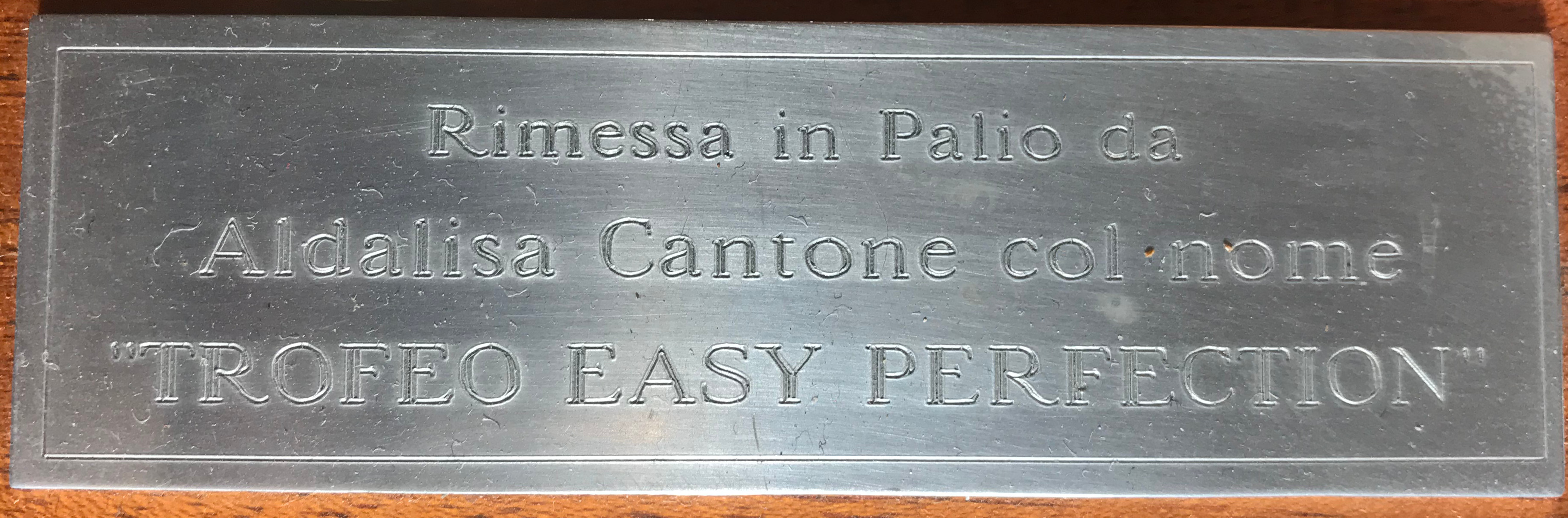 Patch on the trophy